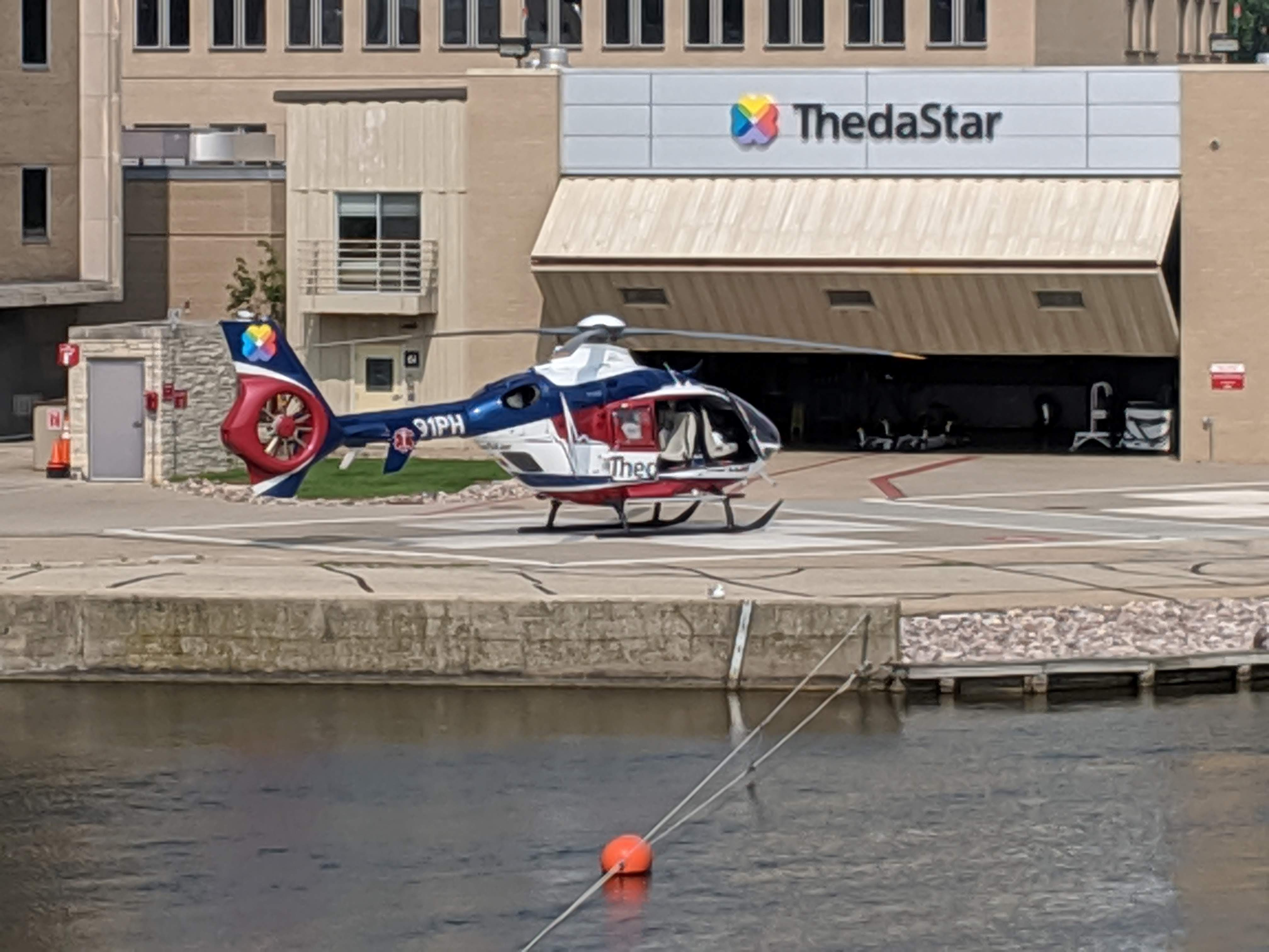 Theda Star Air Ambulance Helicopter parked on the Helipad at the Theda Care Medical Center Heliport